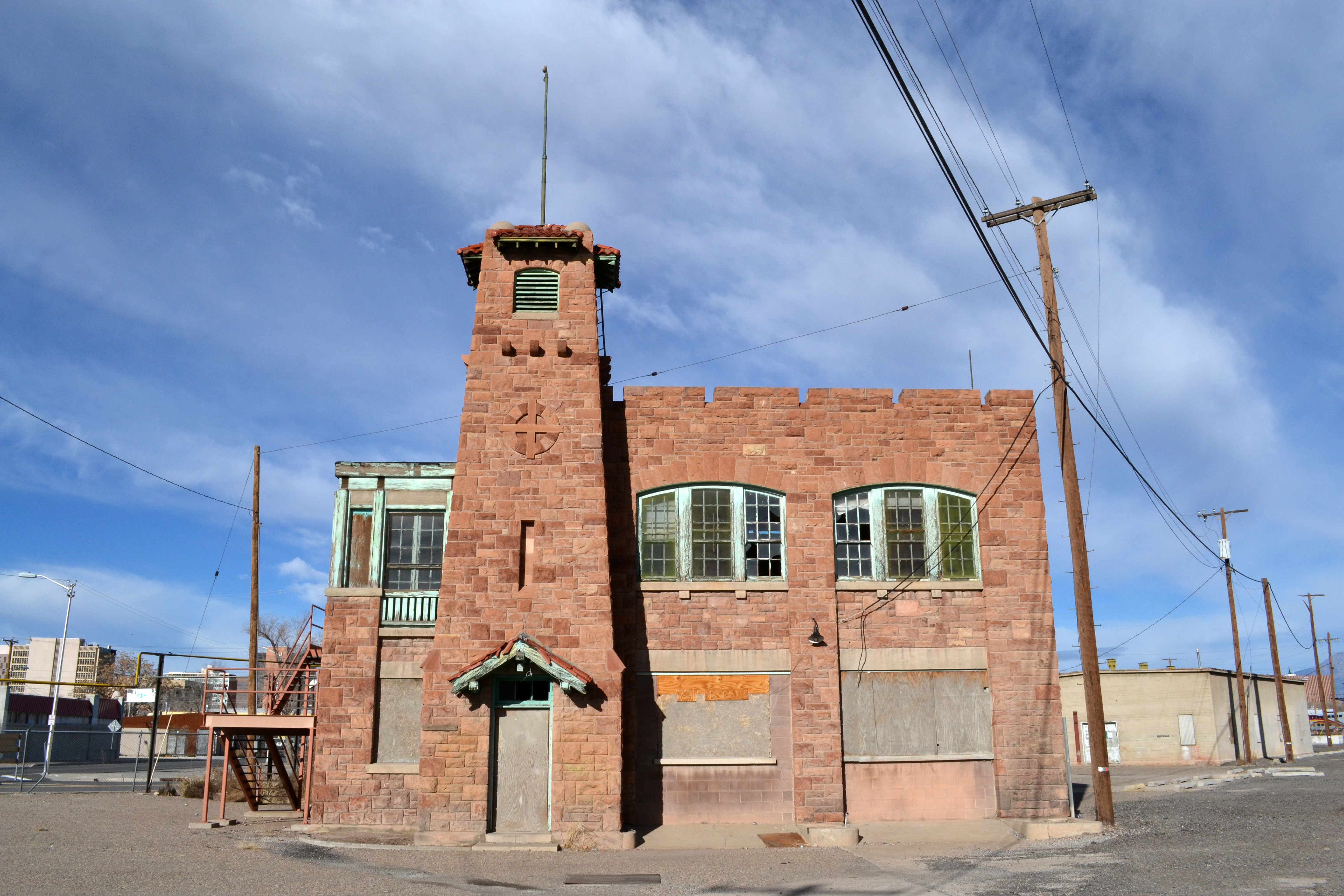 The AT&SF Railroad Fire Station in Albuquerque, New Mexico, built in 1920